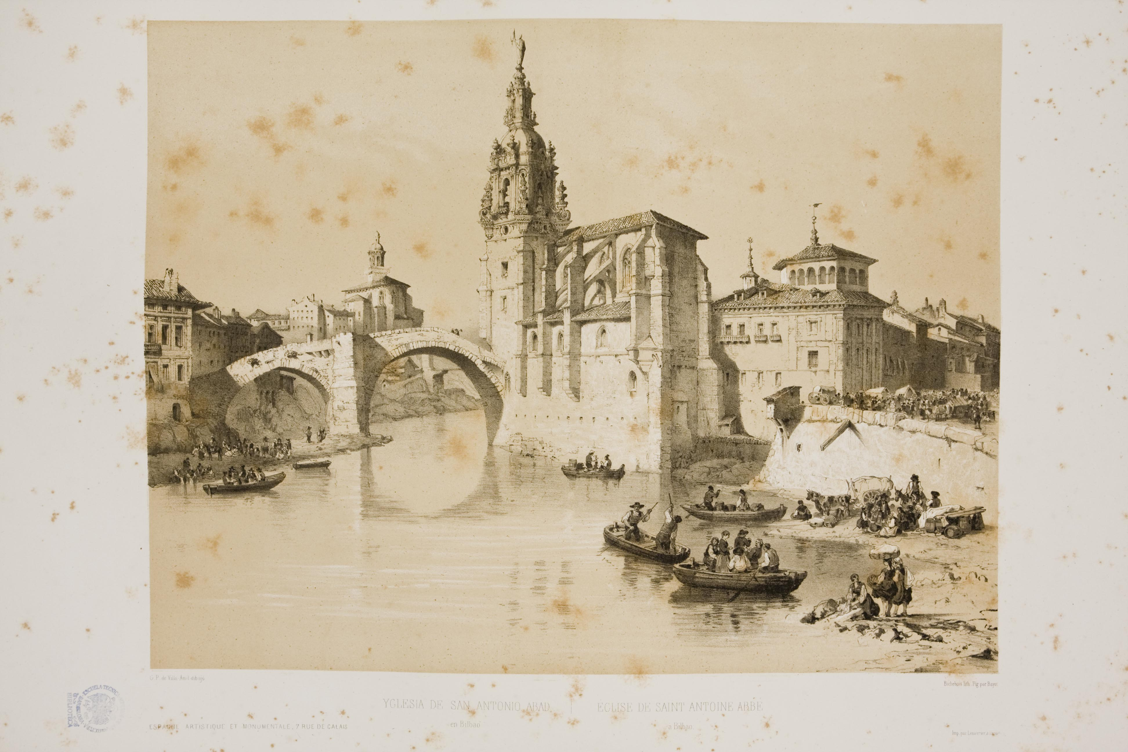 Church of San Antón in Bilbao (Basque country) in 1850, in España artística y monumental.